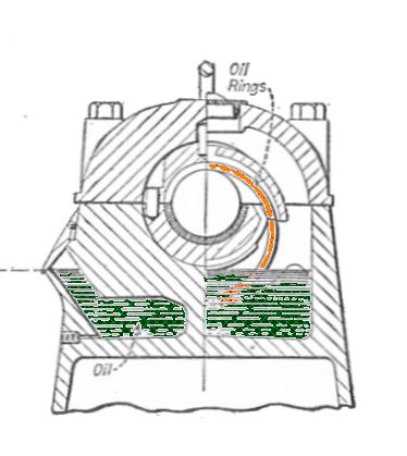 Fig. 149 Bearing with lubrication by ring oiler See other images from this source in 'Electrical Machinery'